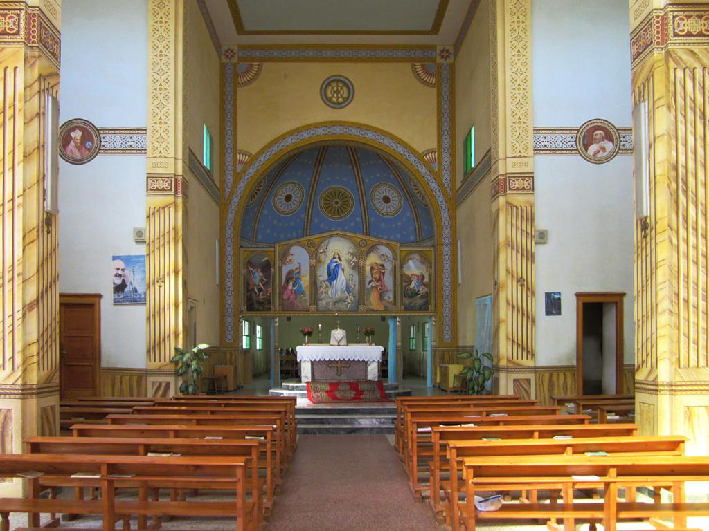 The church of the Franciscan Capuchin Friary in Mendefera, Eritrea, was redecorated in 1966.